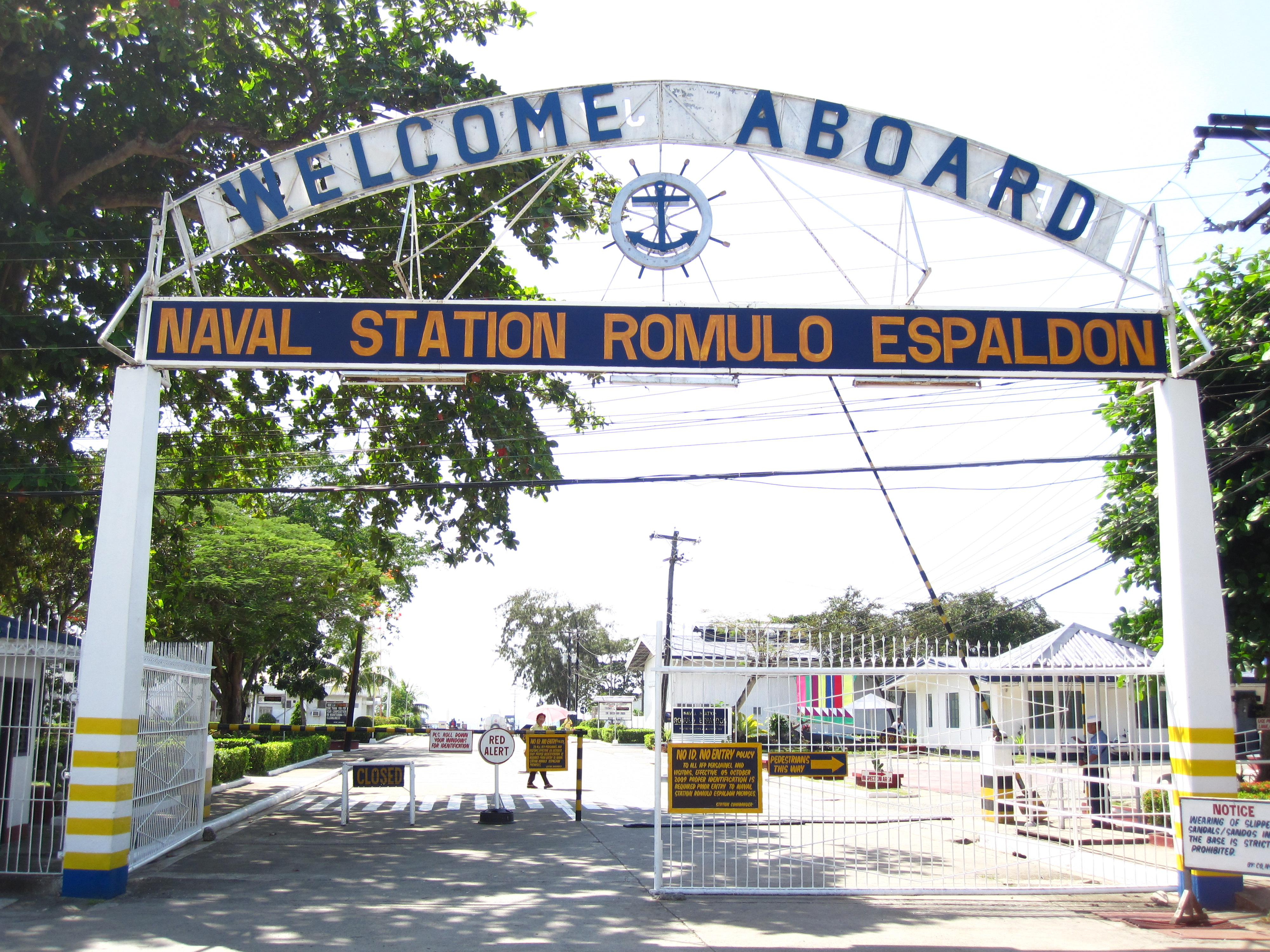 Naval Station Romulo Espaldon (formerly Naval Station Zamboanga) in Zambonga City